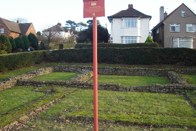 Remains of Roman Dwelling at Portus Abonae (Sea Mills) Portus Abonae was an ancient Roman Settlement at Sea Mills, Bristol, where the Roman army would await embarkation for Caerleon, Wales. The photo is apparently of remains of dwellings which formed part of a military fort in Claudian times. It is taken between Roman Way and the Portway, facing due South. Most commuters speeding down the Portway would never know it was there!